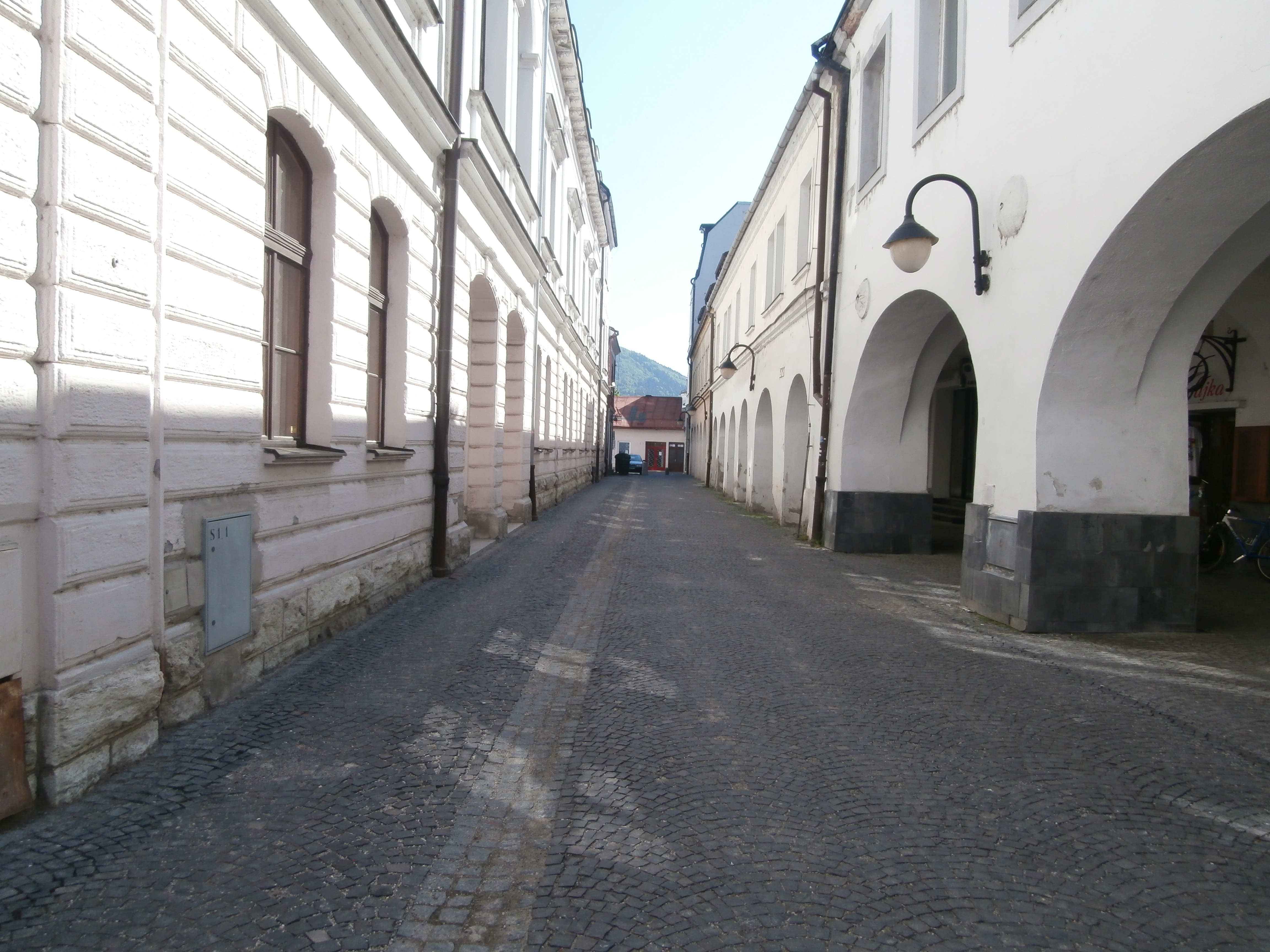 This is a street in Žilina.